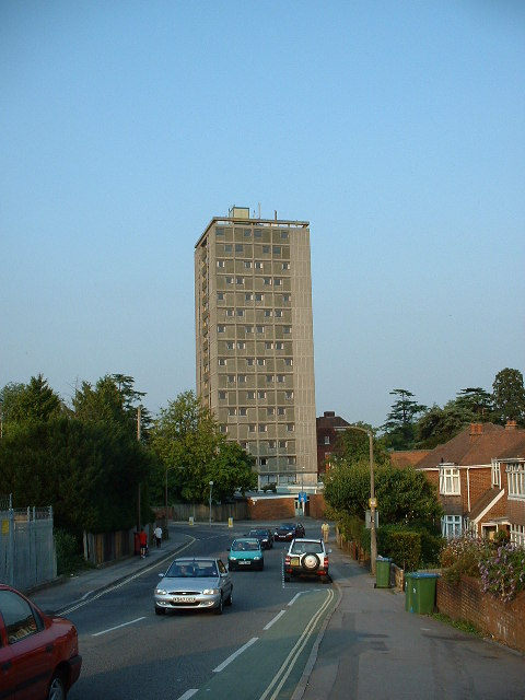 High-rise student flats, Southampton This 1960s "Brutalist" tower block off Woodmill Lane is a hall of residence for university students.